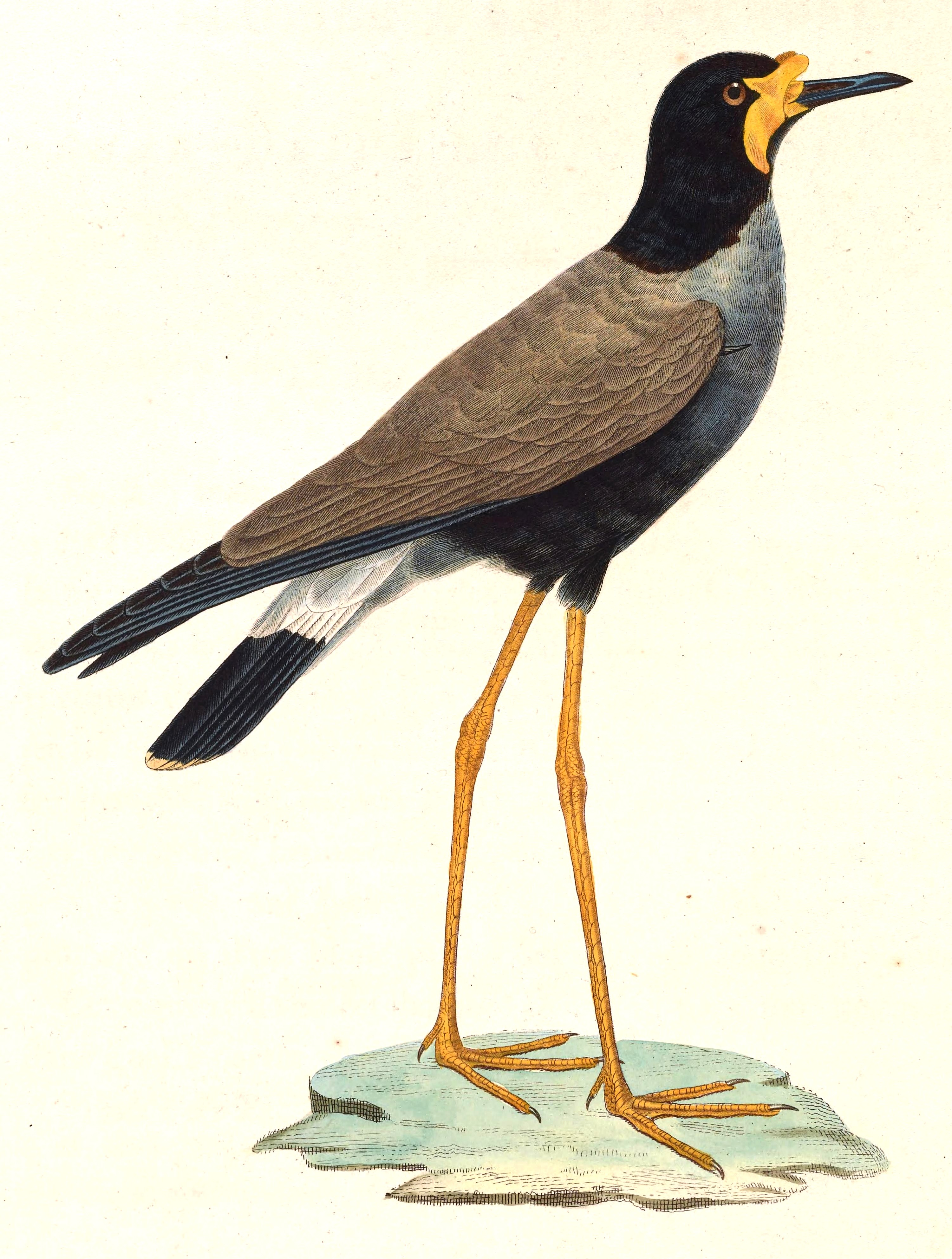 « Vanellus cucullatus » = Vanellus macropterus (Javanese Lapwing) - adult male